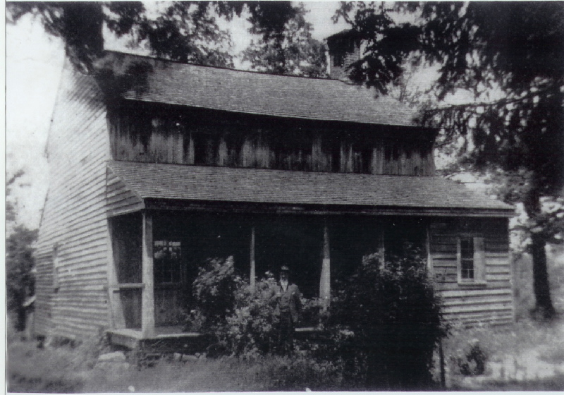 The Hambright Homestead cira. 1920. Col. Frederick Hambright homestead in Kings Creek, South Carolina. The house was built about 1790.